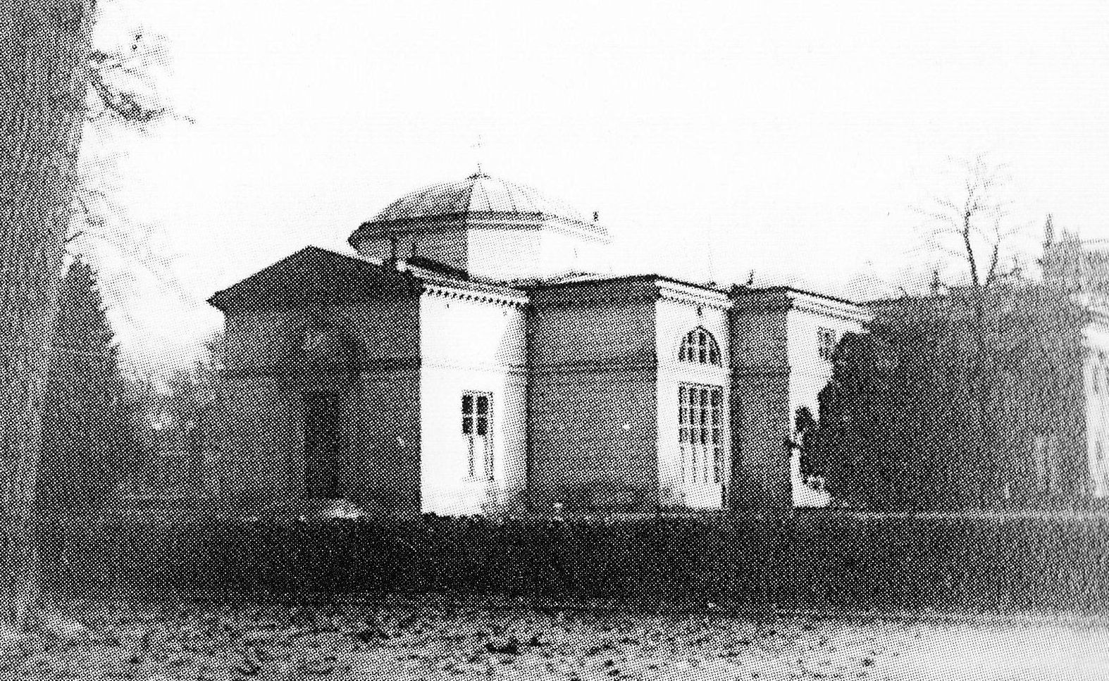 Orthodox church of St. Alexander Nevsky in Łazienki Park in Warsaw